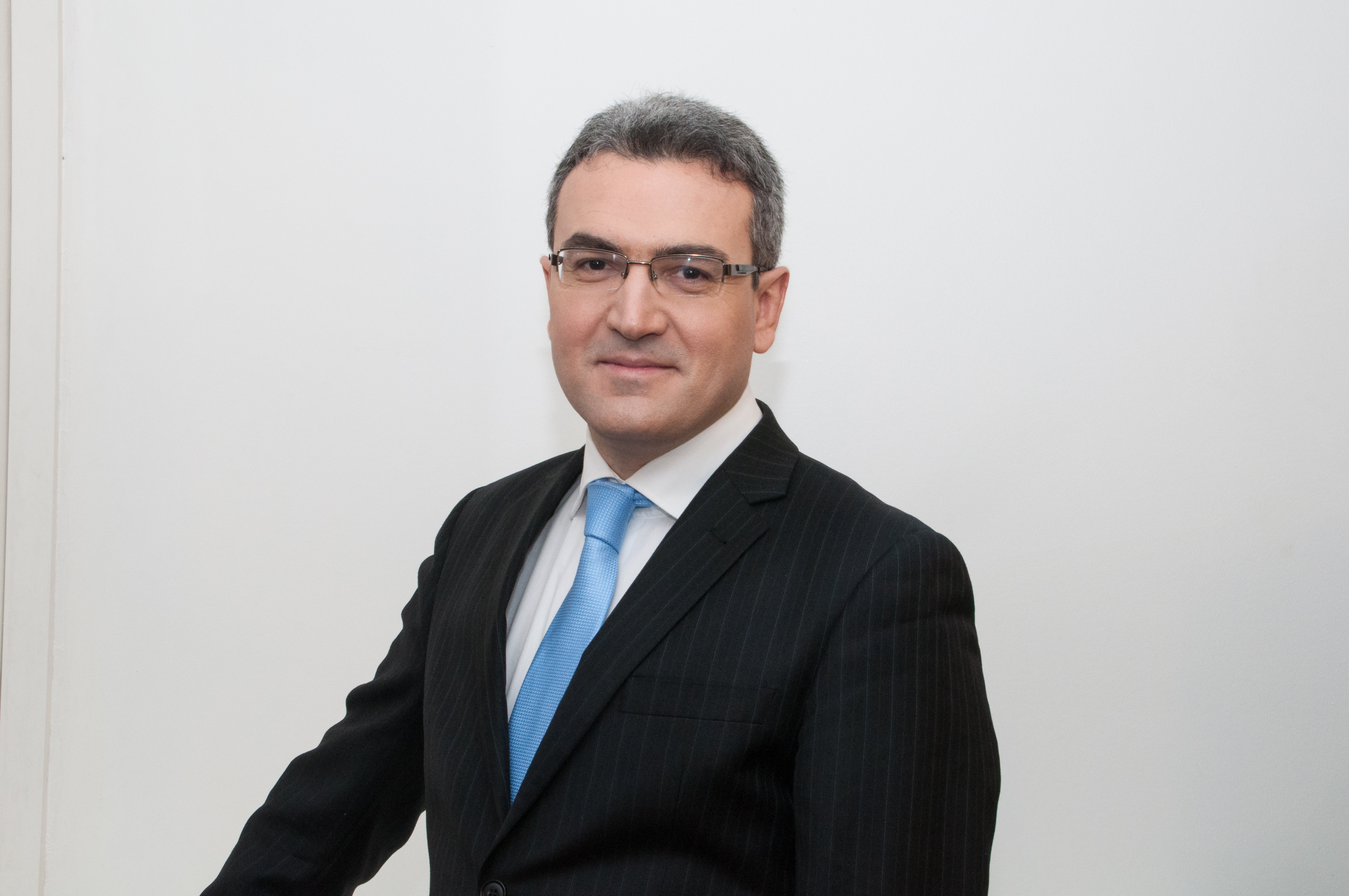 Photo Aymeric Chauprade